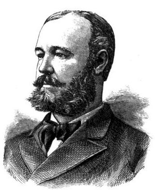 Charles LeMoyne Mitchell (Connecticut Congressman)